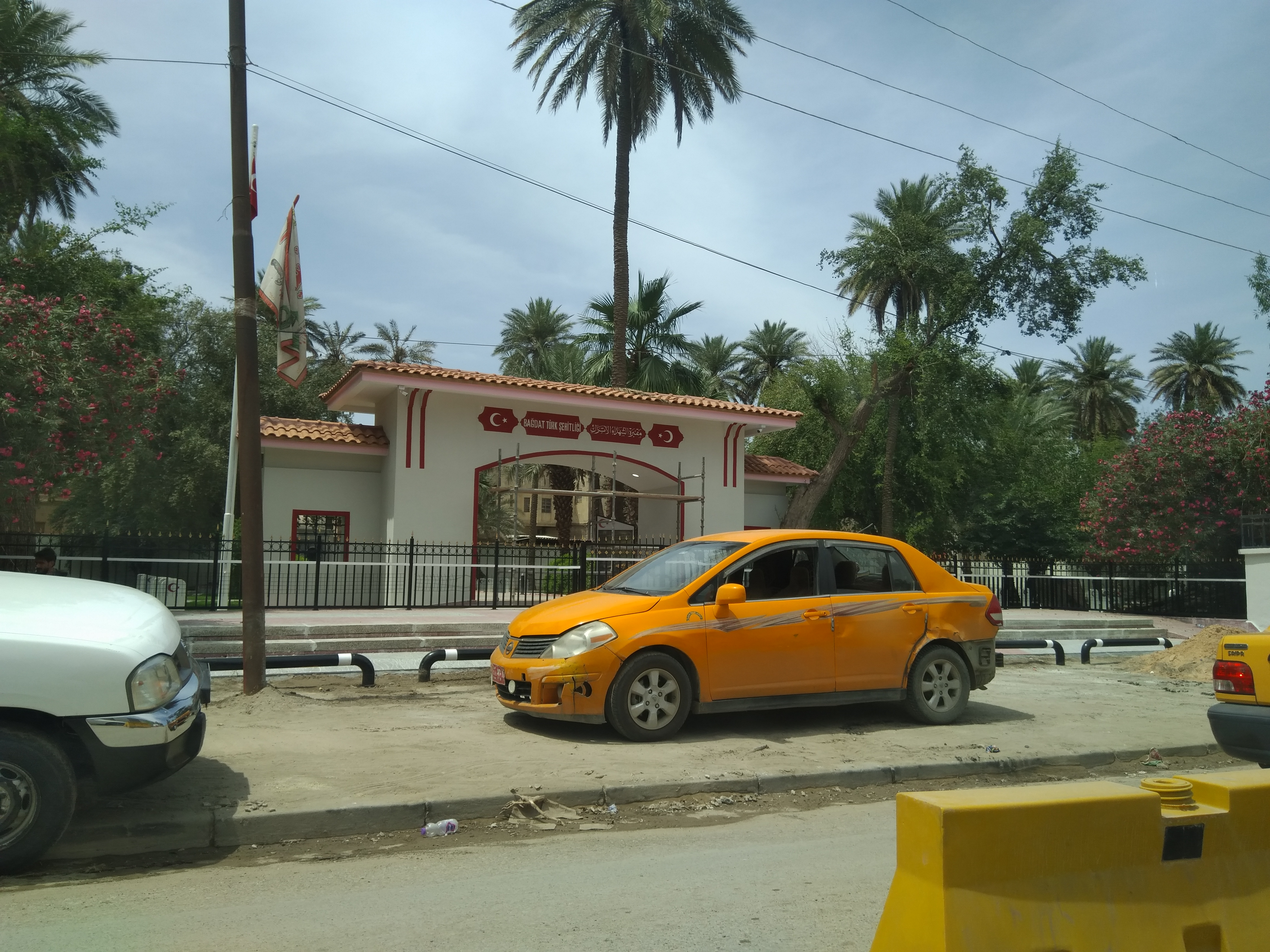 Turkish (WWI) Cemetery in Baghdad